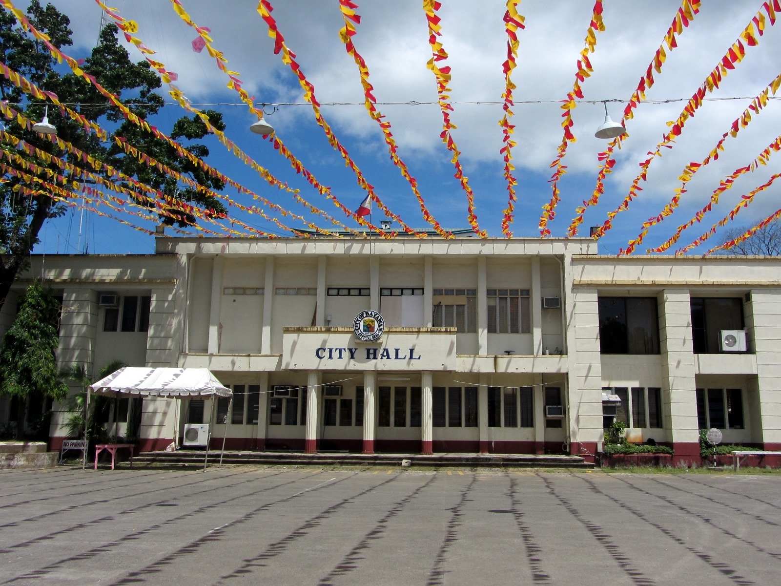 City Hall in Bayawan